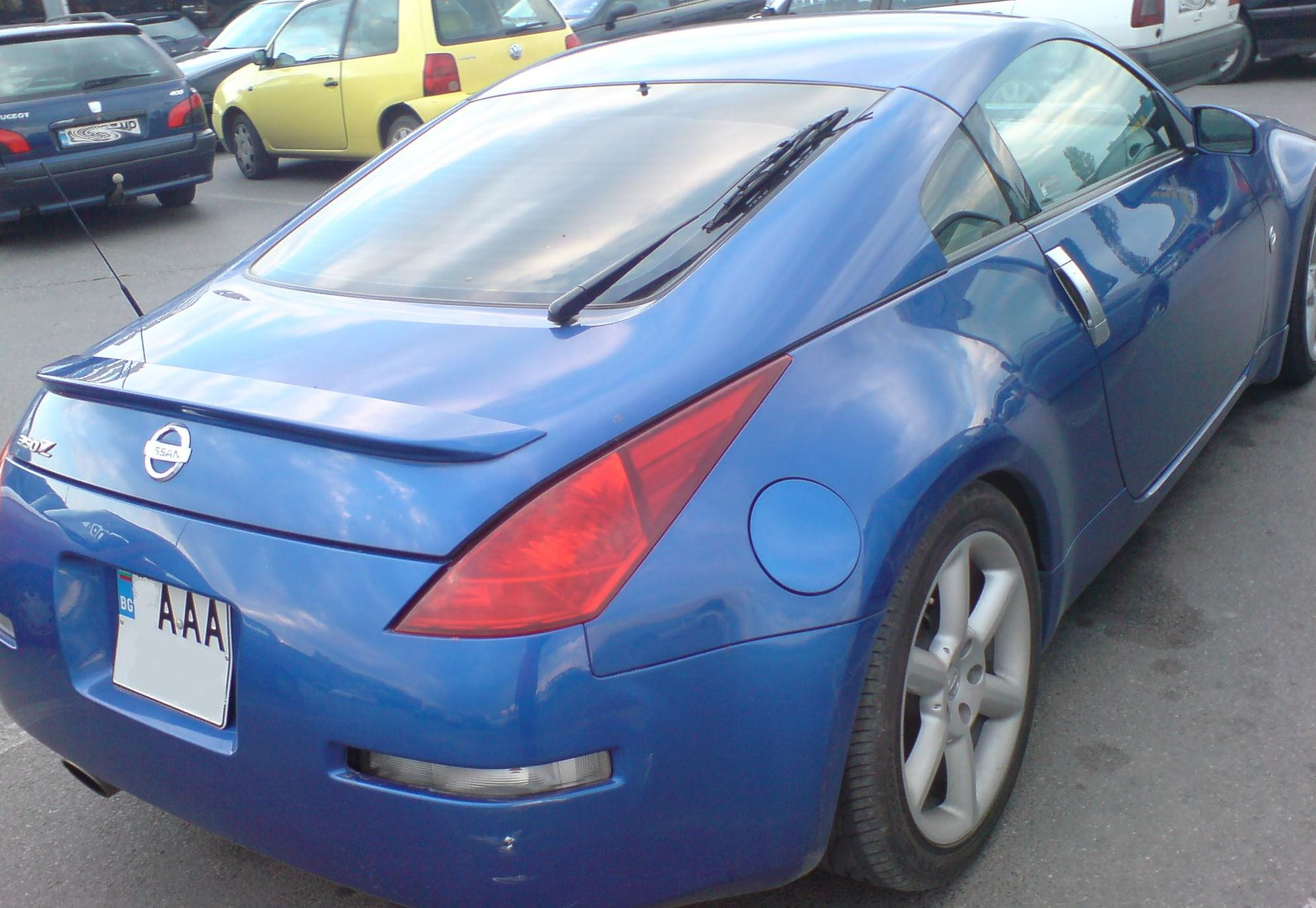 Nissan Z350